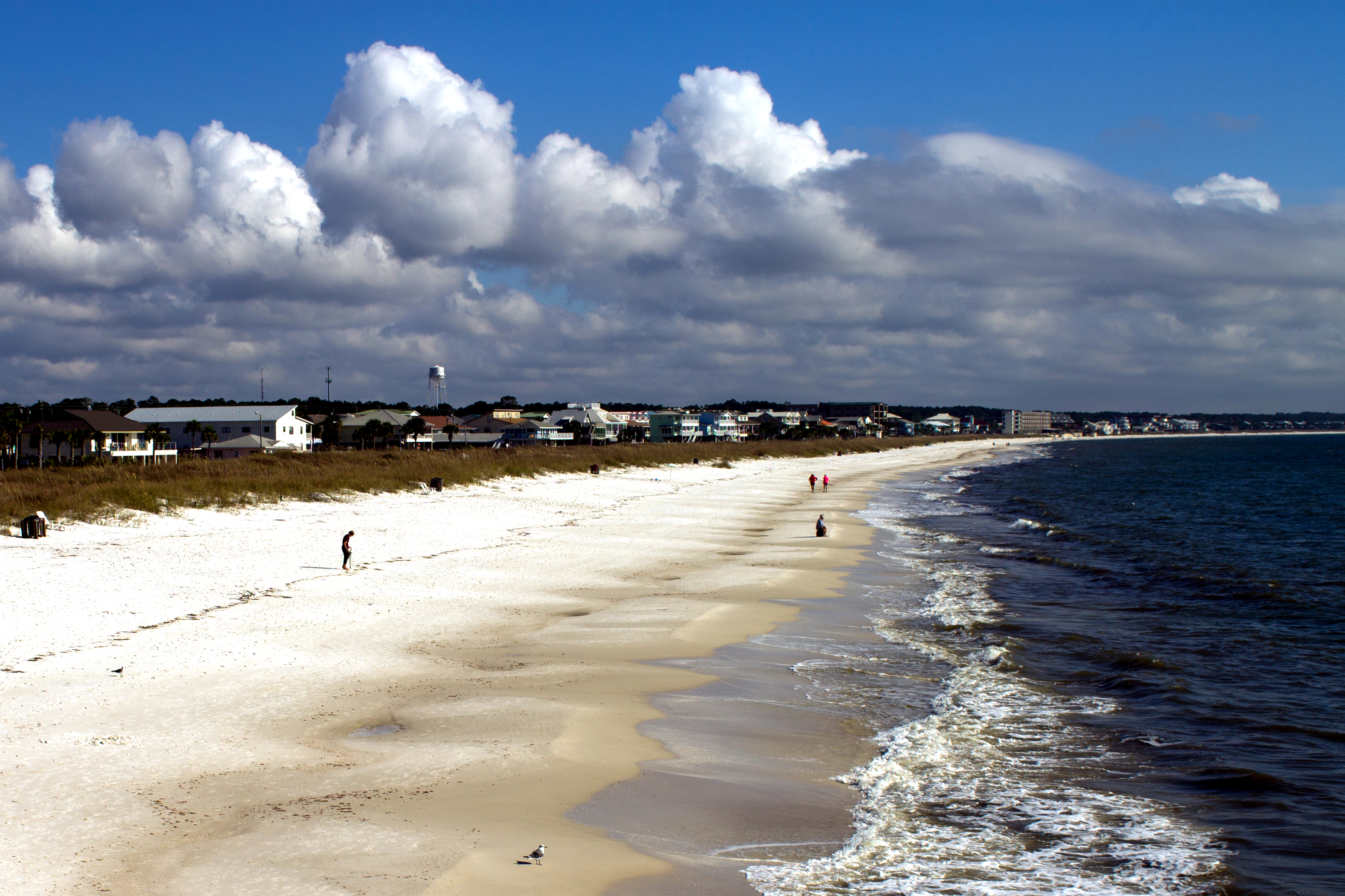 Looking east from the public pier in Mexico Beach, FL.